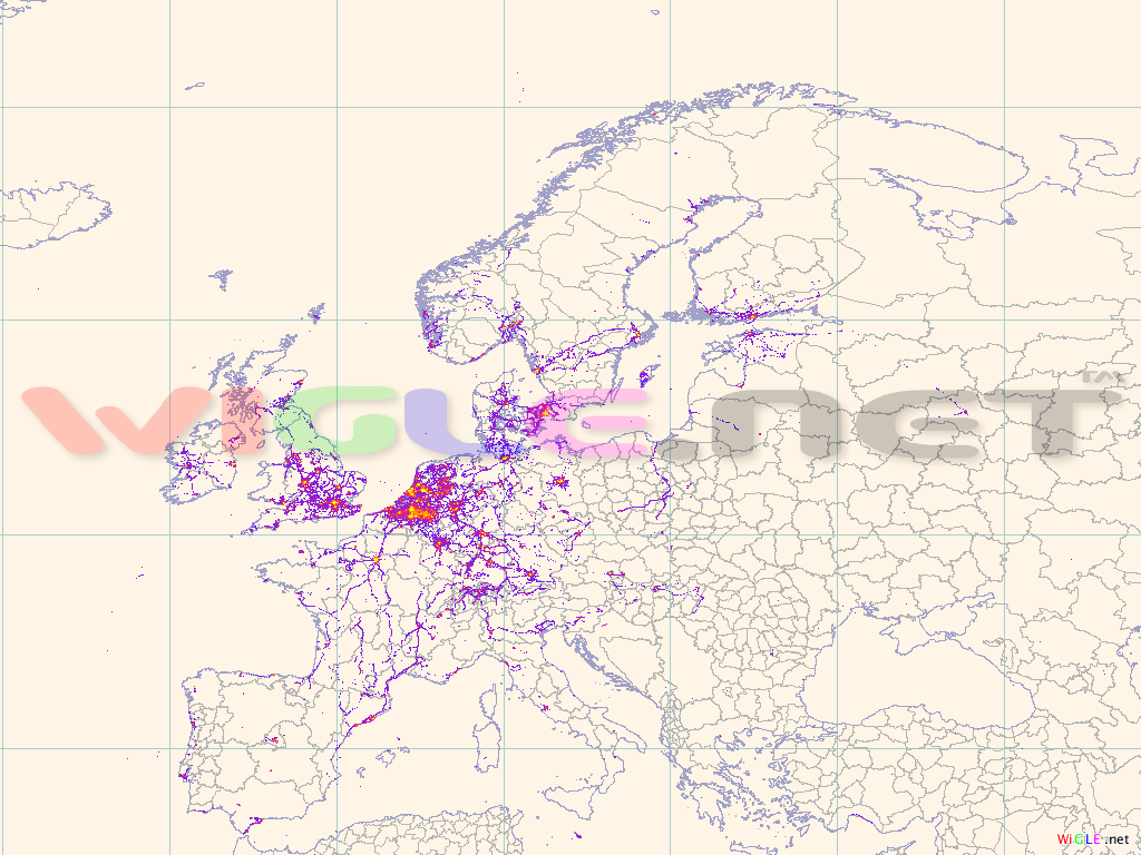 A map of Wi-Fi nodes in Europe collected by the WiGLE project.